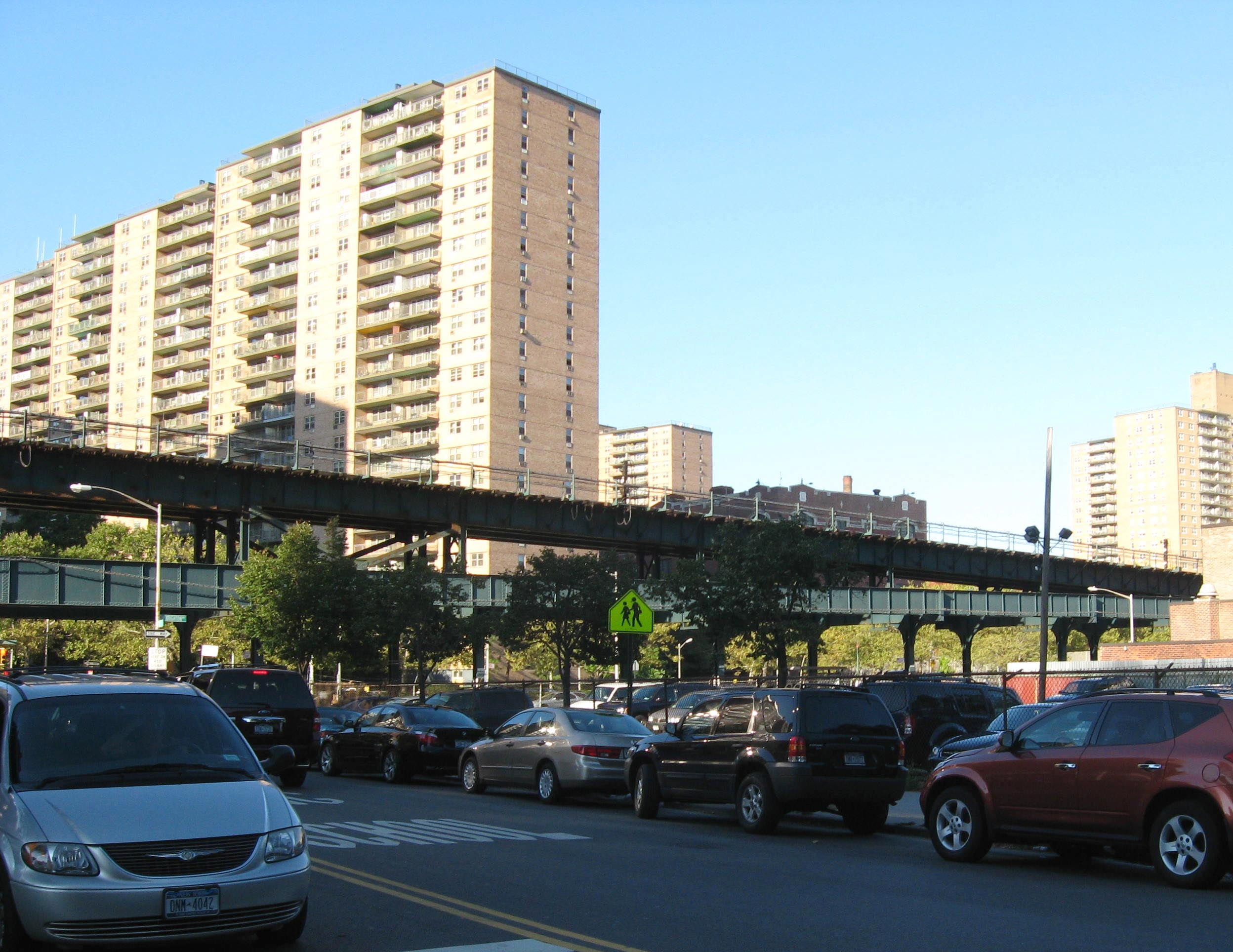 Looking north from Sea Breeze Avenue and West 5th Street at BMT Brighton Line ramp on a sunny afternoon.